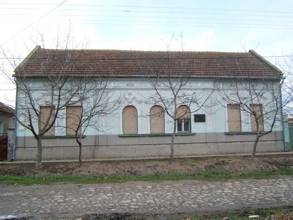 Birth house of national hero Boško Vrebalov in Melenci, Zrenjanin